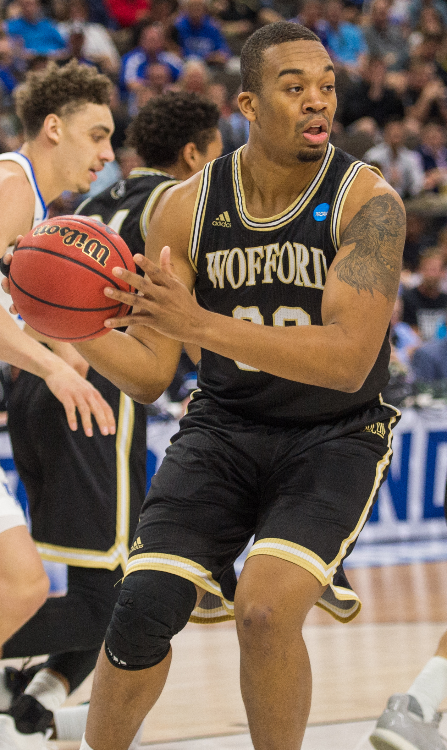 Cameron Jackson with Wofford at the second round of the 2019 NCAA Tournament